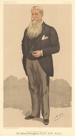 Caricature of Sir HB Loch GCMG GCB. Caption read "The Cape High Commissioner".